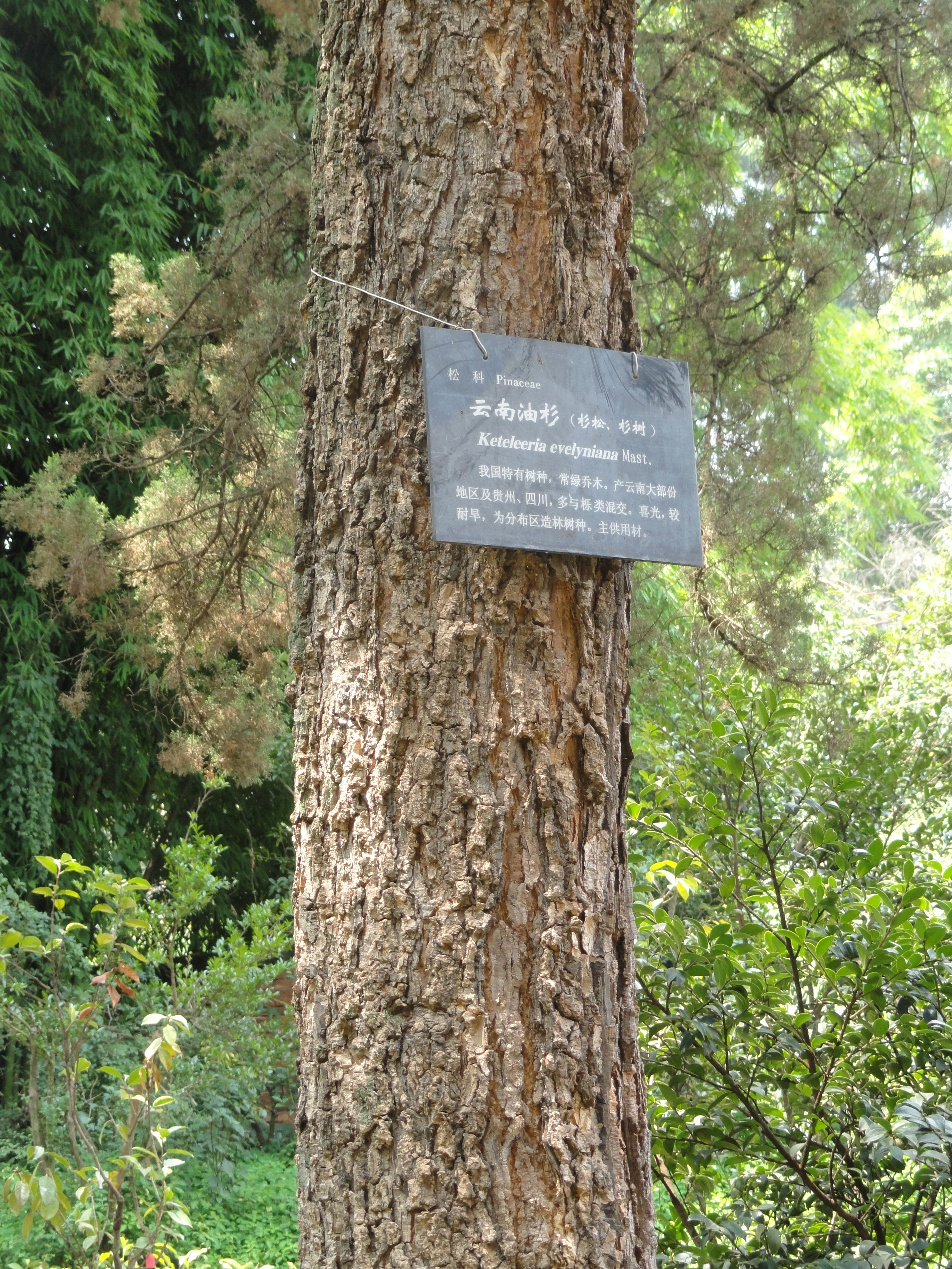 Plant specimen in the Kunming Botanical Garden, Kunming, Yunnan, China.